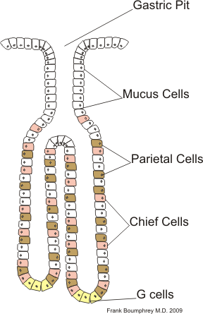 diagram of Gastic gland